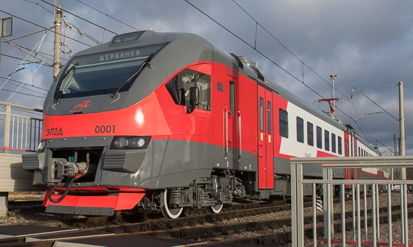 Electrotrain EP2D